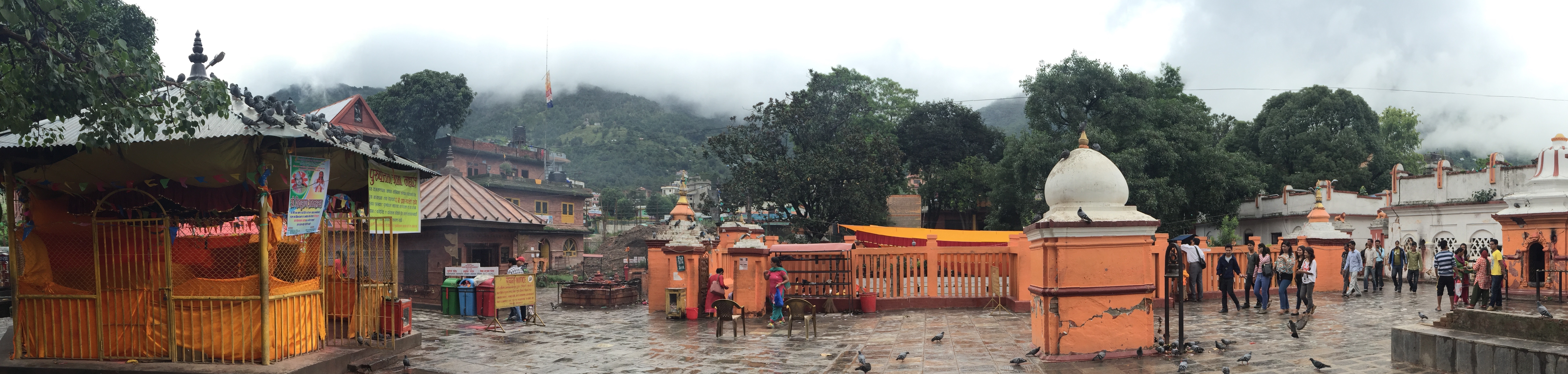 Budhanilkantha